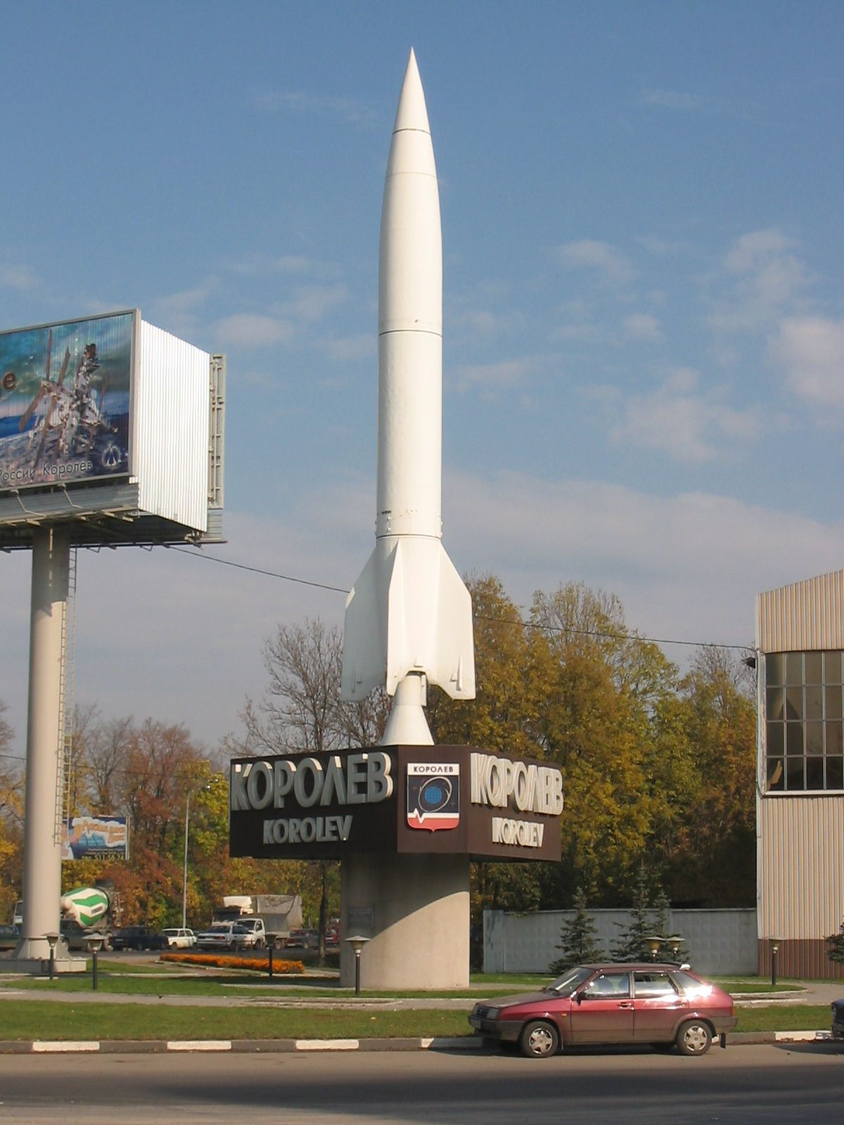 Korolyev city sign at the entrance from the Yaroslavl shosse (highway), Korolyov, Moscow Oblast, Russia, 2003